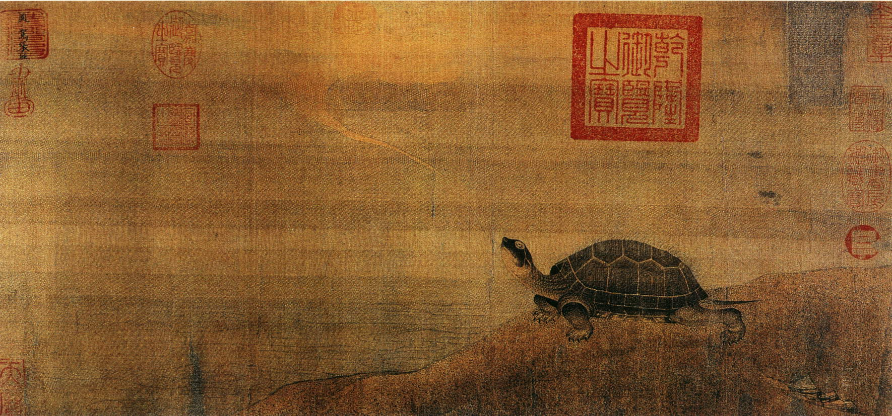 "Divine Turtle" (or "Numinous Turtle"), painting by the Jin-Dynasty painter Zhang Gui. The painting carries a stamp from the 21 year (ca. 1485) of the Chenghua era of the Ming Dynasty, indicating its ownership at the time.